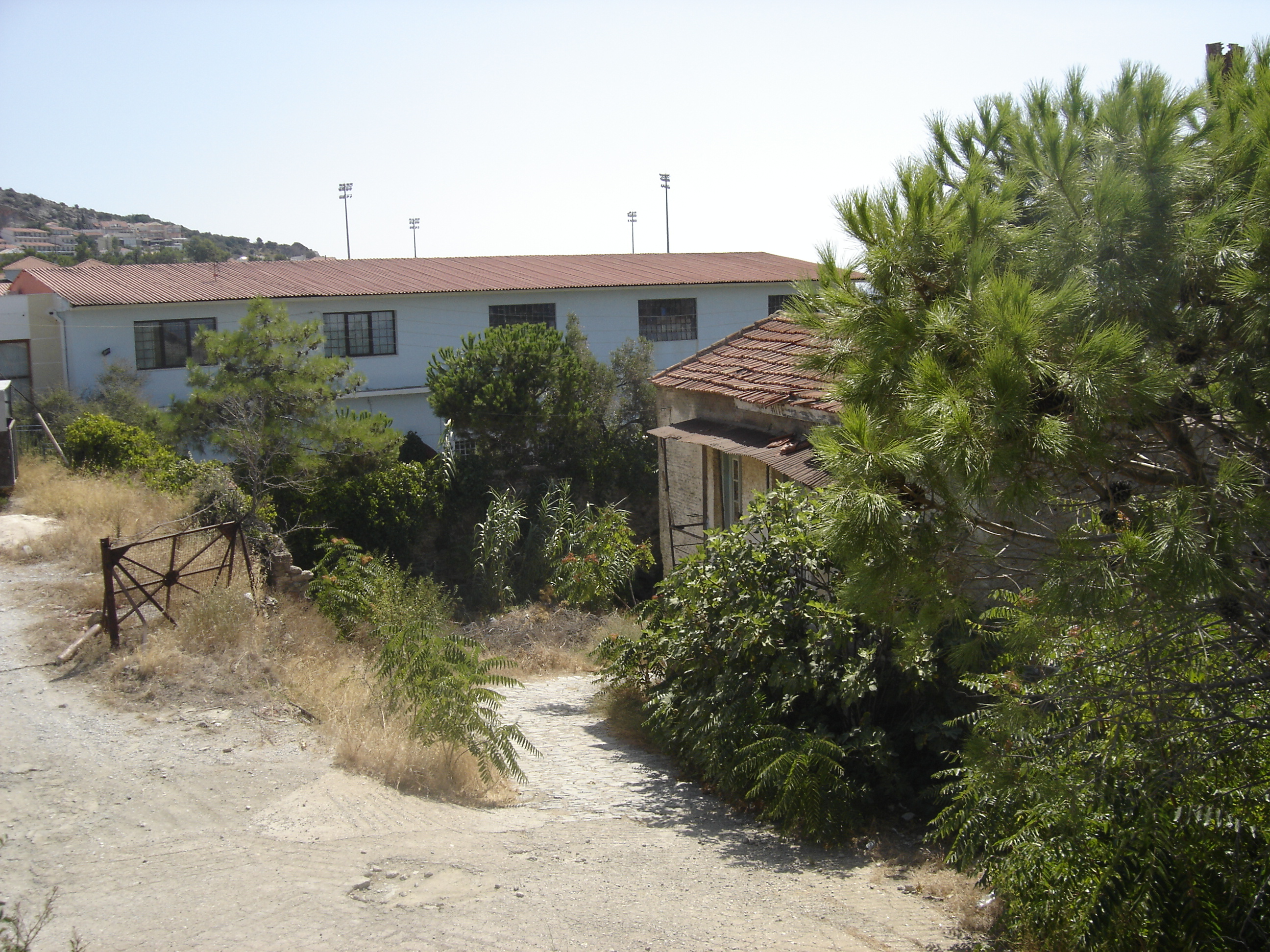 Ouzo museum Varvagiannes in Plomari - Το μουσείο ούζου Βαρβαγιάννης στο Πλωμάρι